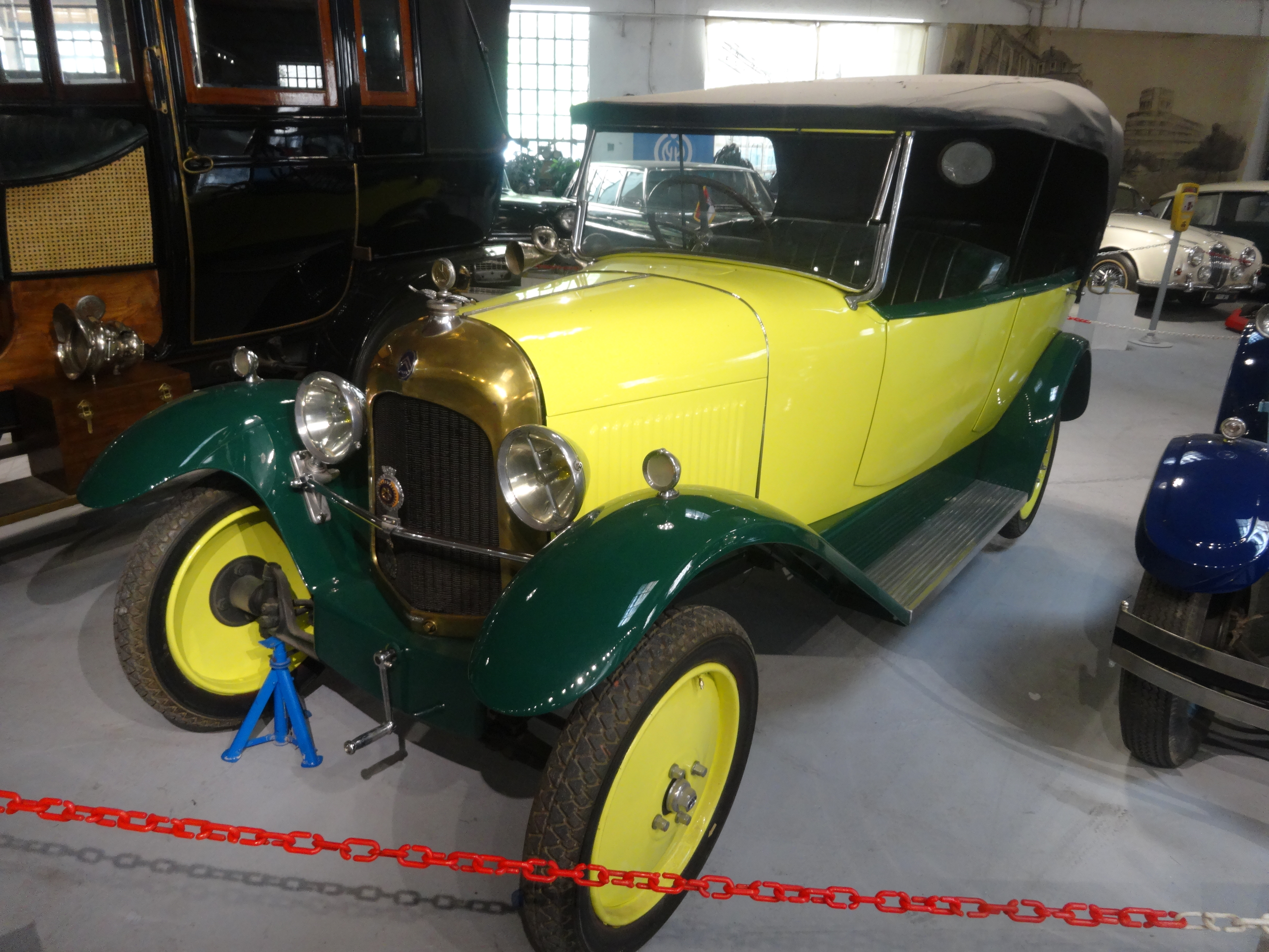 This media file is allowed by the Automobile museum of Belgrade, Serbia. Engine: four cylinder Capacity: 1300 cm3 Power: 18 hp/2200 rpm. Max. speed: 75 km/h Transmission: three speed+reverse